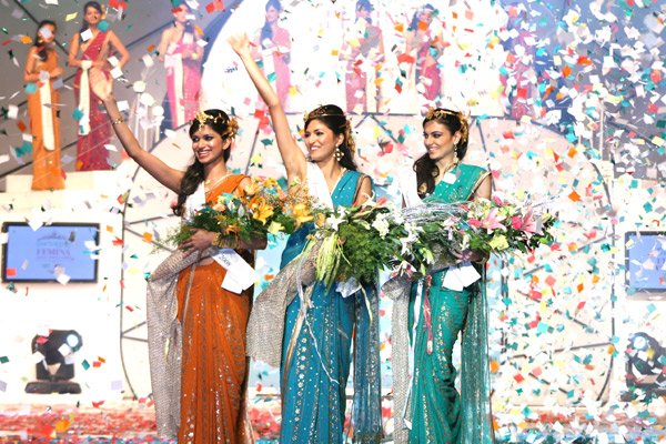 The winners of Femina Miss India 2008